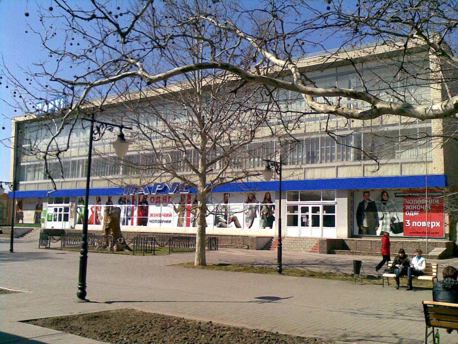 Parus (Suvorov street)